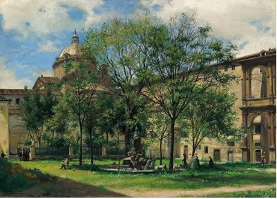 Motif from Rome